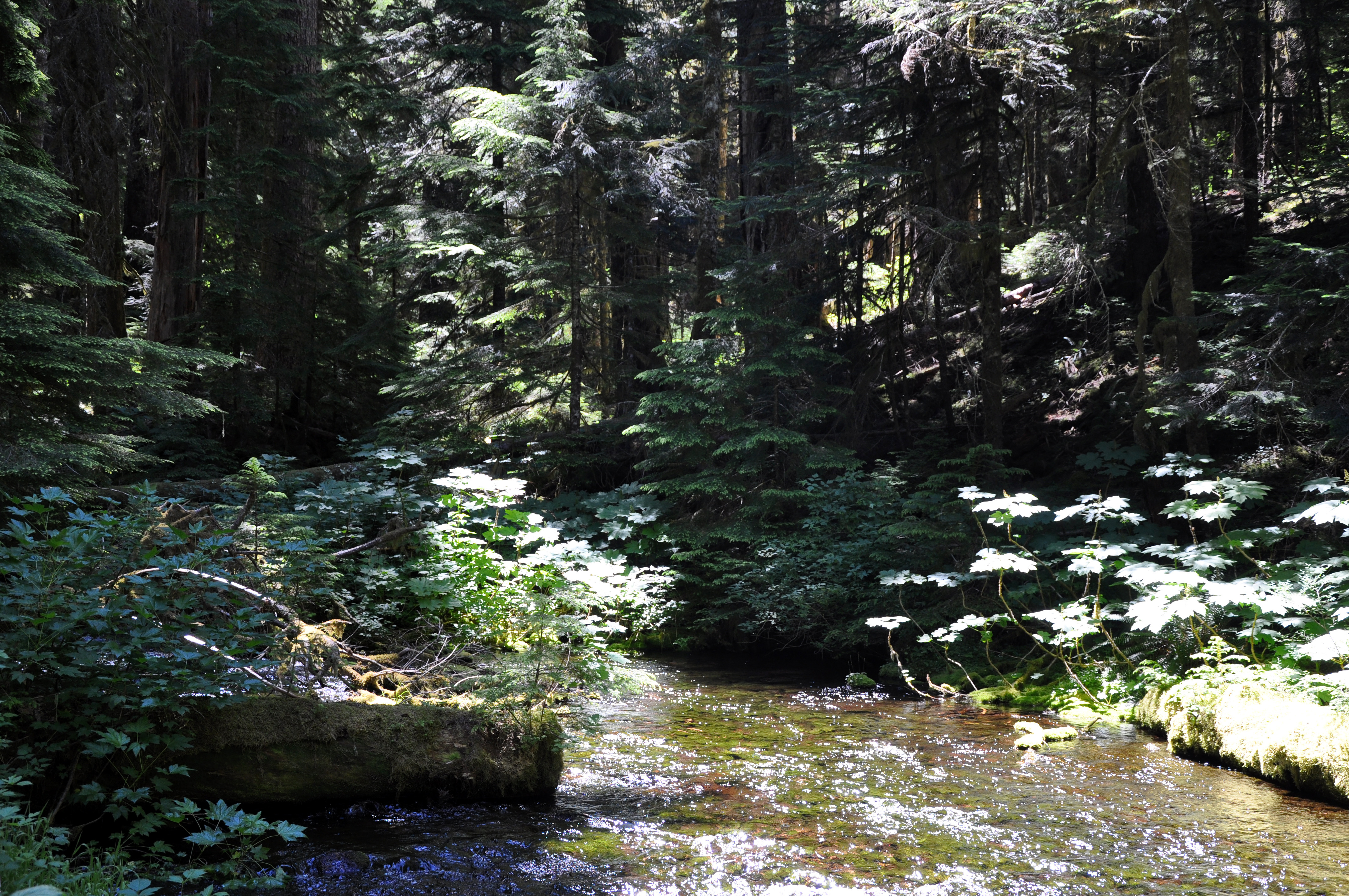 Bull Run River near its headwaters in northwestern Oregon, United States